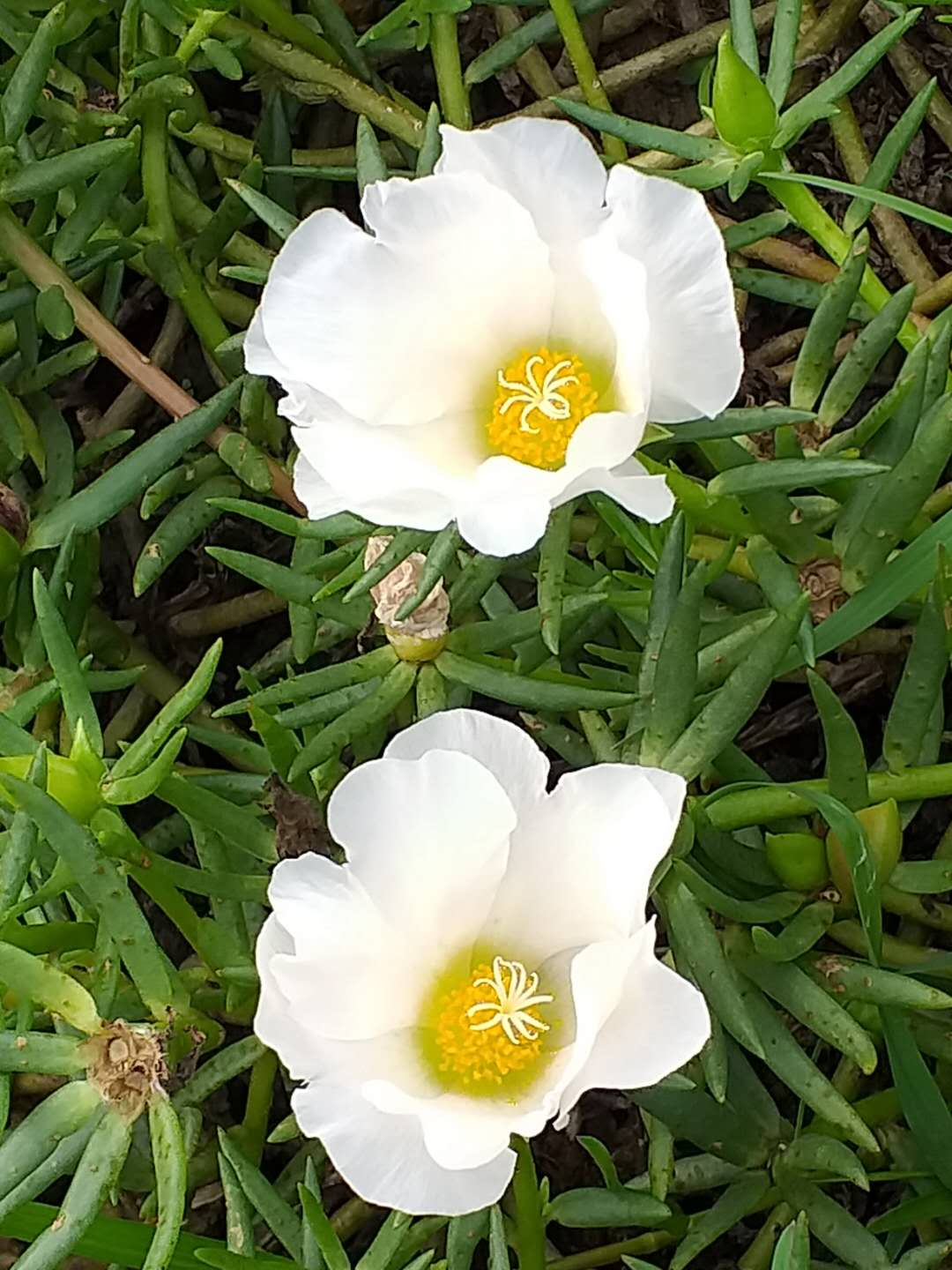 Portulaca grandiflora. 2018 Taichung World Flora Exposition, Taiwan.